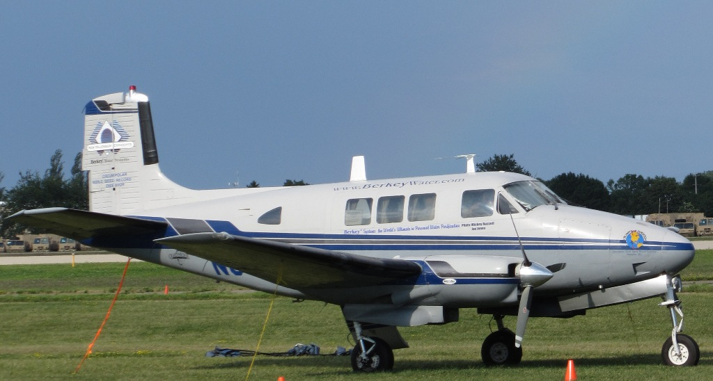 Beechcraft Queen Air